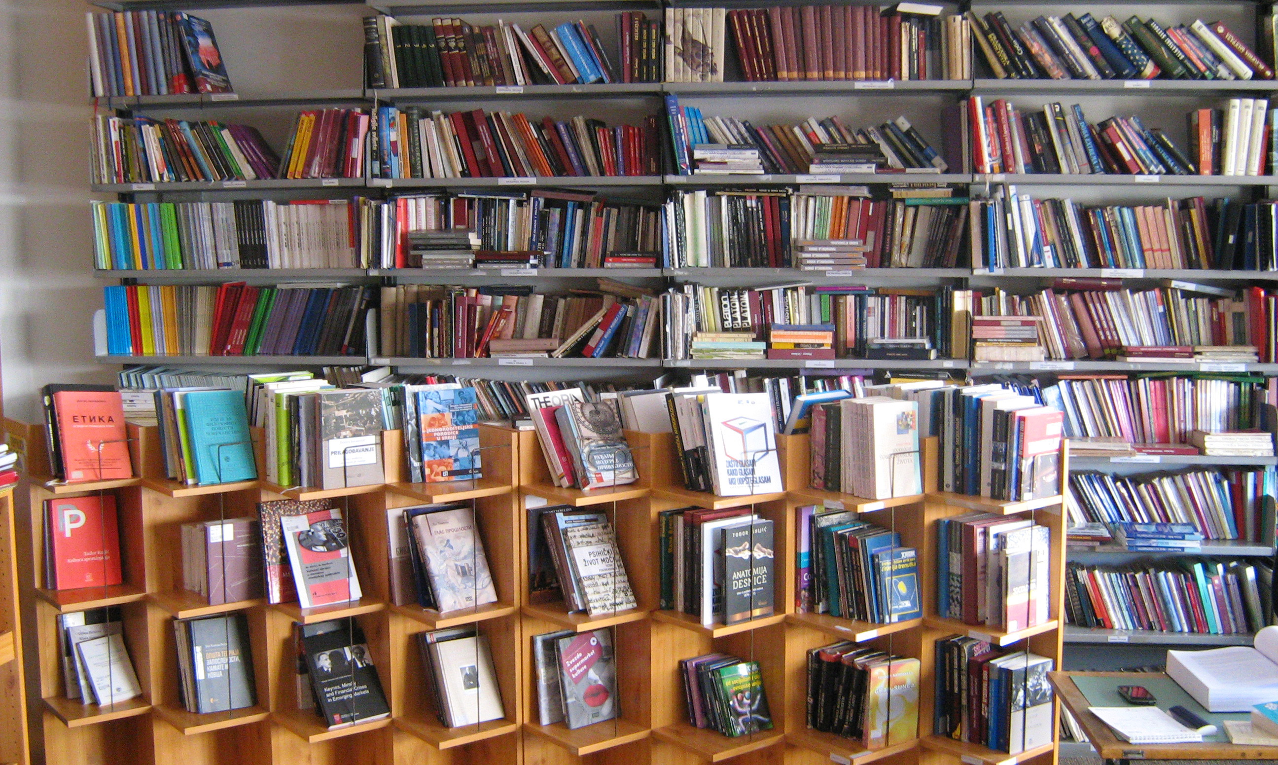 University of Belgrade, Faculty of Philosophy, Department of Sociology Library